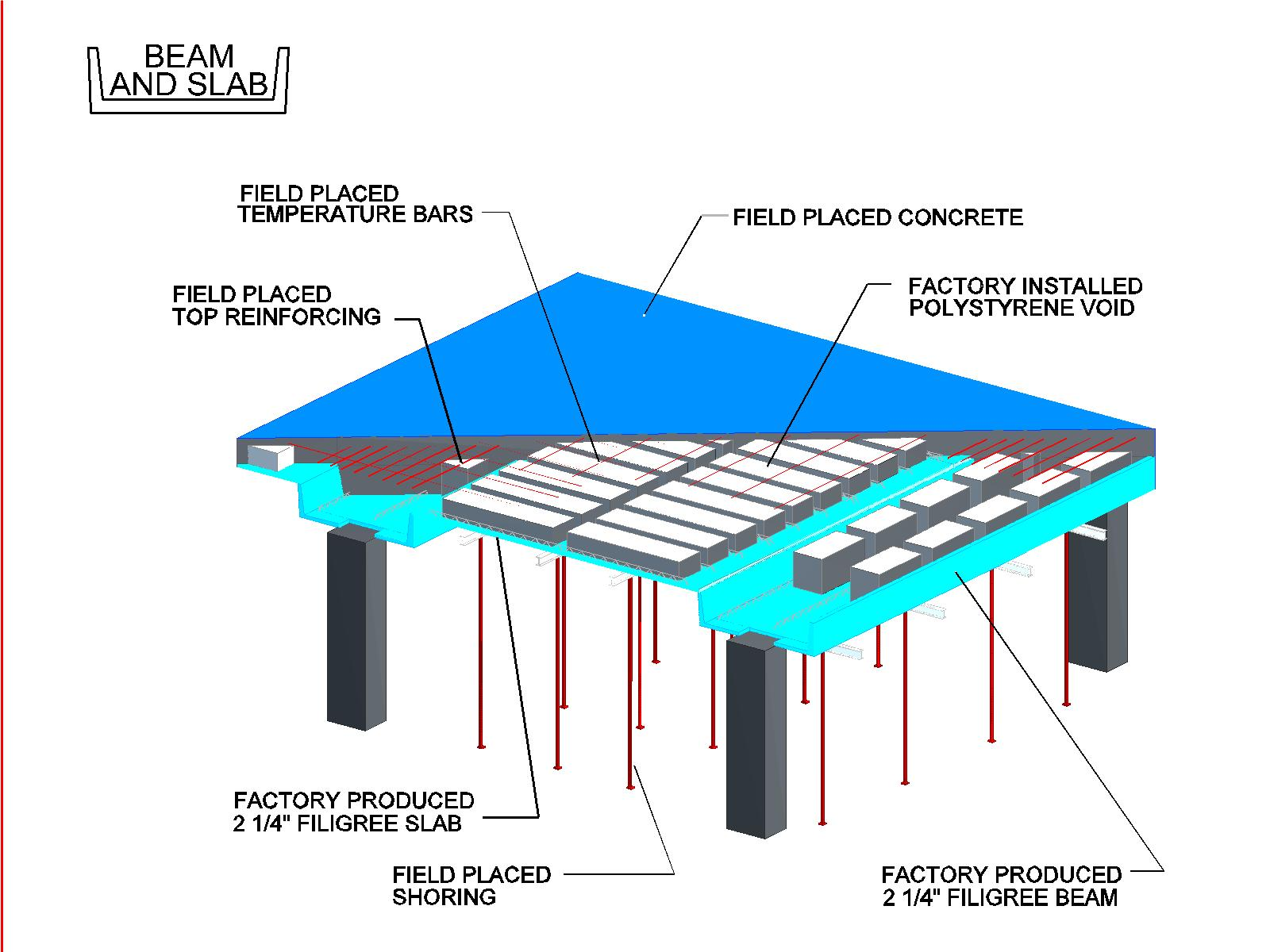 Beam & Slab System